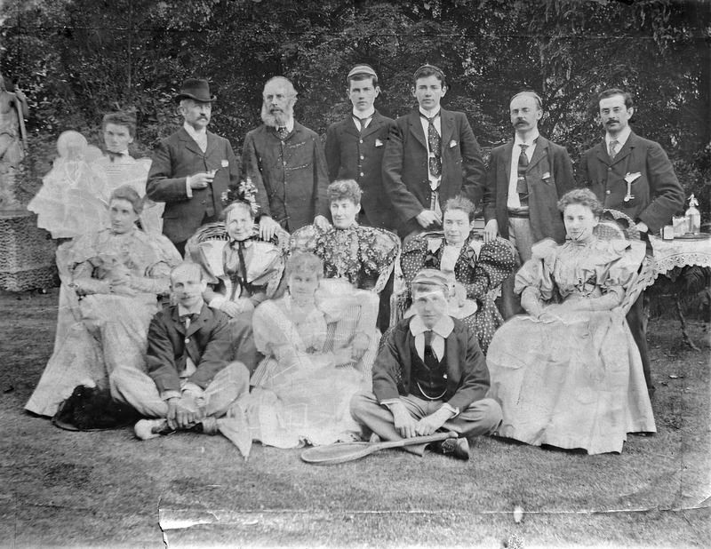 Family of Charles Otto Blagden (1864-1949). Back row (left to right): 1. Nurse with baby (perhaps daughter of Victor Blagden) 2. Charles Washington Blagden 3. Father of Charles Otto Blagden 4. and 5. Two sons of Joseph Blagden (uncle of Charles Otto Blagden) 6. Harry von der Osten 7. Victor Blagden (brother of Charles Otto Blagden) Middle row (left to right): 8. Victor Blagden's wife 9. Eliza von der Osten 10. Wife of Charles Washington Blagden 11. Mother of Charles Otto Blagden 12. Sister of Harry and Edward von der Osten (Alice Klein) Front row (left to right): 13. Edward von der Osten 14. Daughter of Charles Washington Blagden 15. Son of Charles Washington Blagden